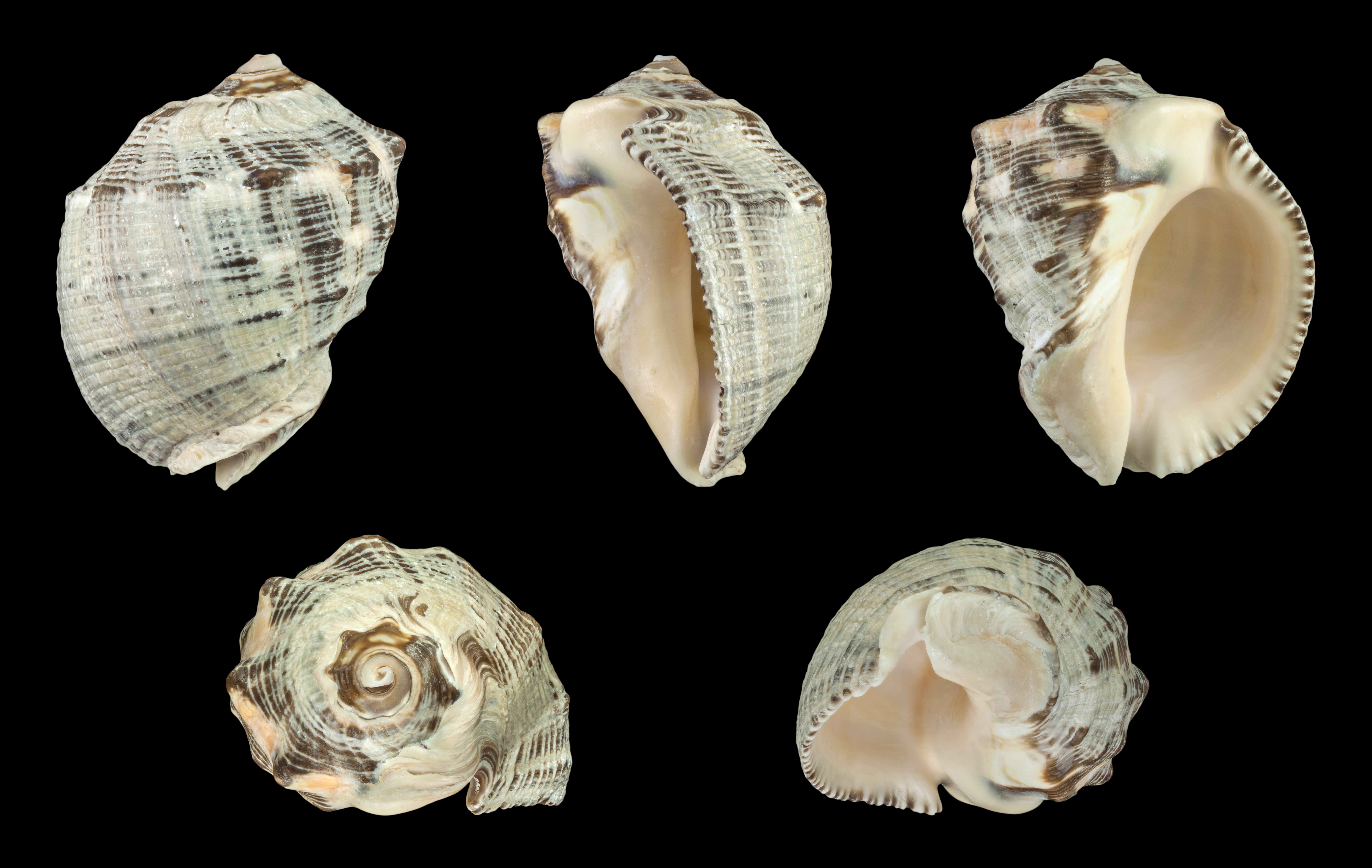 Purpura bufo Lamarck, 1822, Toad Purpura; length 6.6 cm; Originating from Vietnam; Shell of own collection, therefore not geocoded.